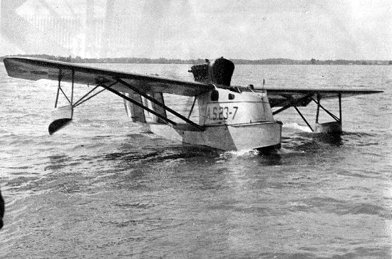 Loening S-1 (Model 23 Air Yacht) of the United States Army Air Service.